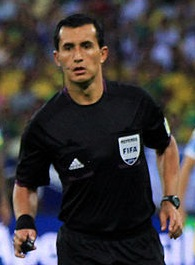 Enrique Osses, match Brazil-Uruguay at the FIFA Confederations Cup 2013